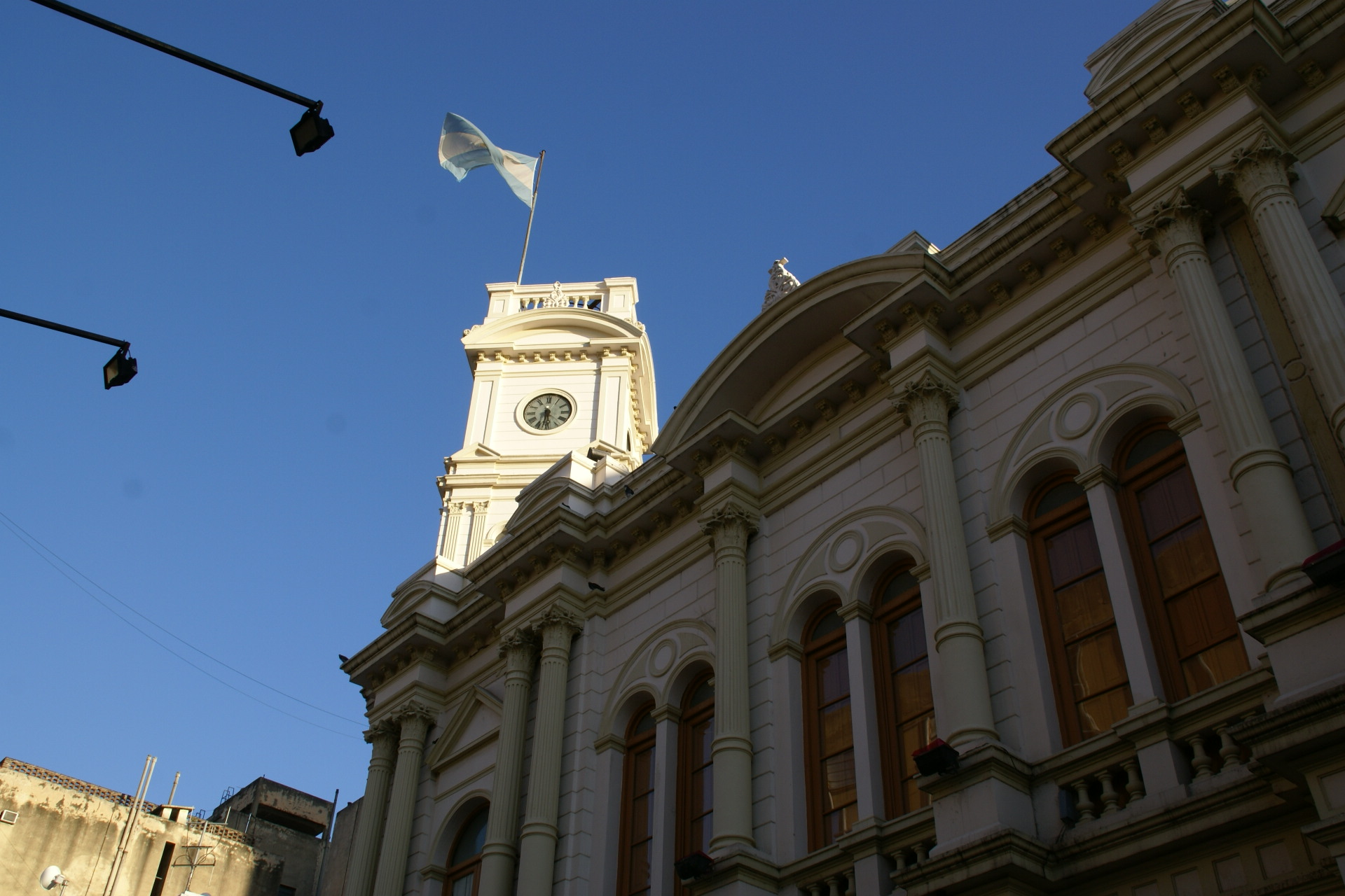 Legislatura (government building) in Córdoba, Provincia de Córdoba, Argentina